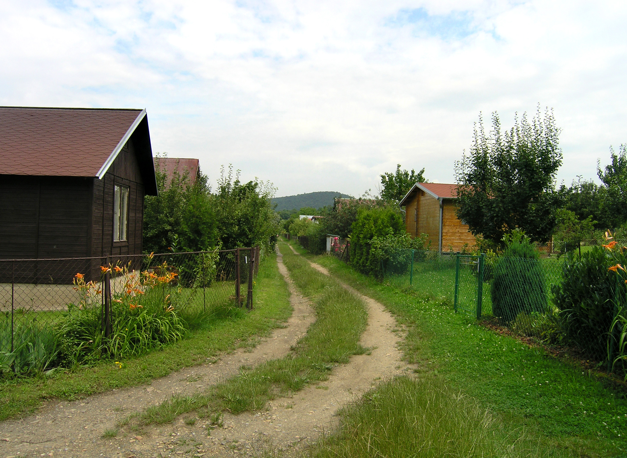 Garden plots by Elišky Přemyslovny street in Zbraslav, Prague